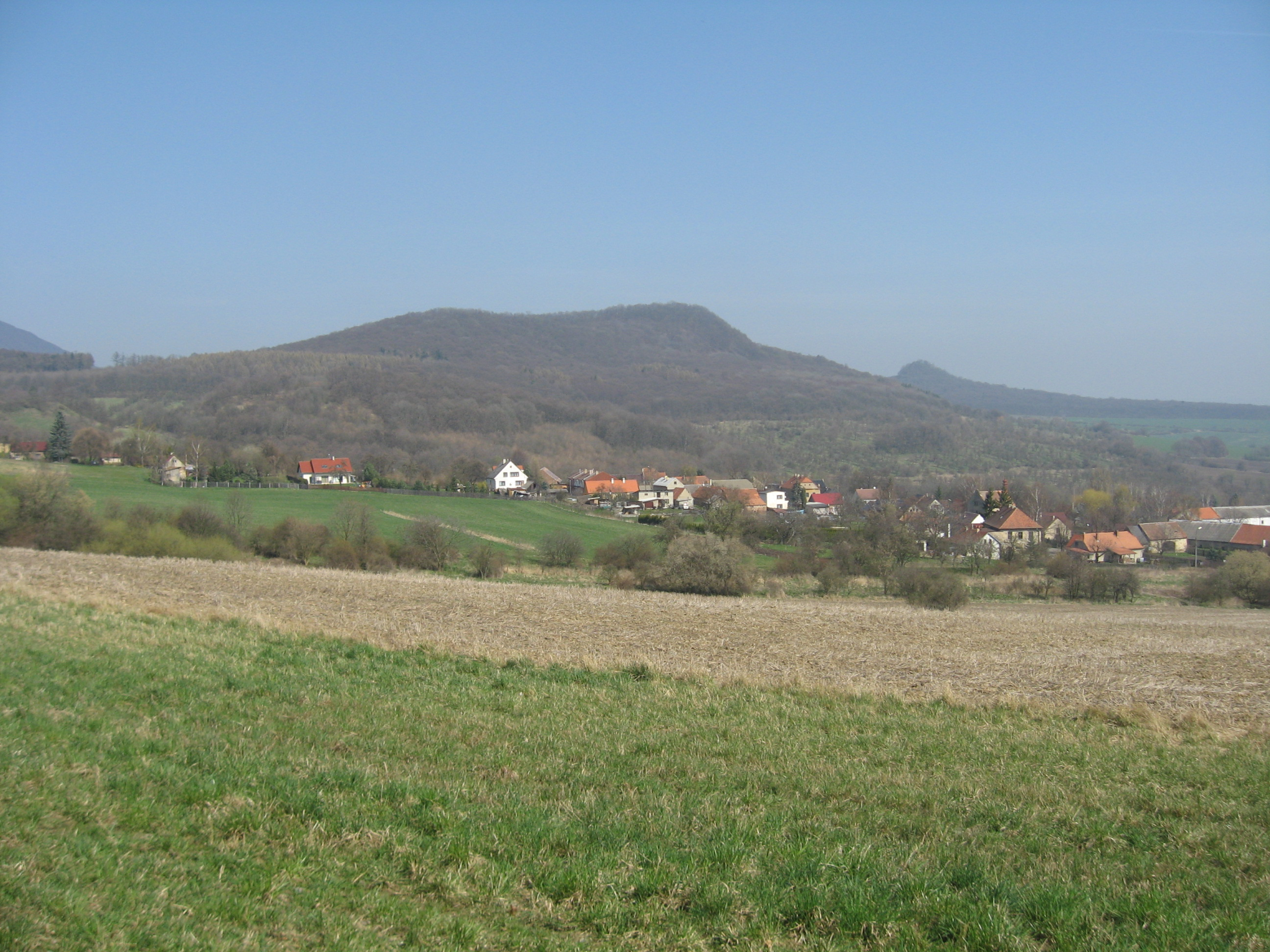 Kocourov: total view